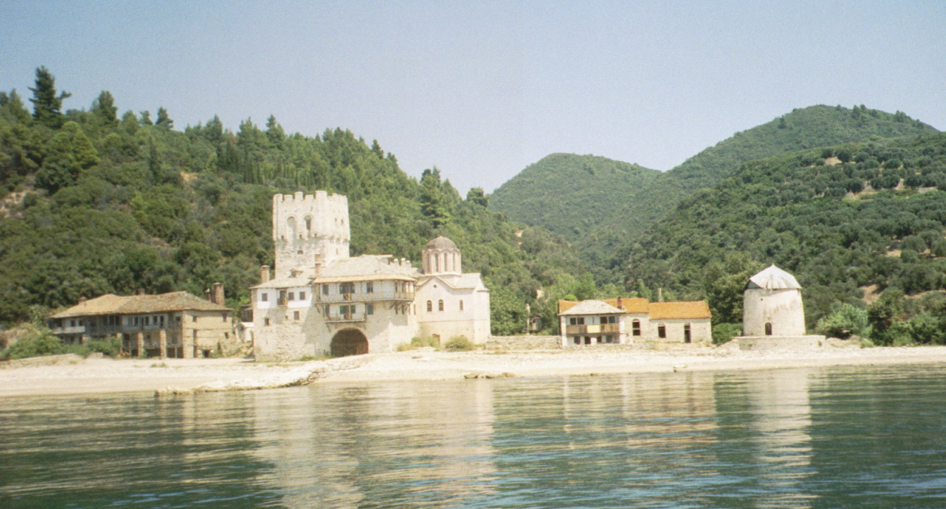 Zografou anchorage